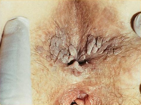 A woman afflicted with genital warts, also called condylomata acuminata, around the anus. These warts are caused by human papillomavirus (HPV).